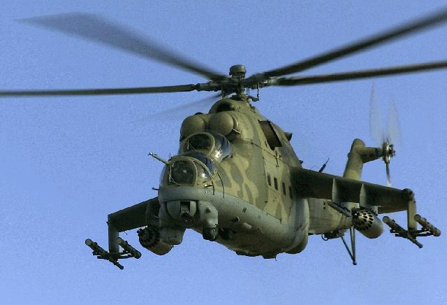 A Soviet made MI-24 Hind helicopter gunship flown by U.S. Army Test and Evaluation (ATEC) Command Threat Support Activity pilots, Biggs Army Airfield, Fort. Bliss Texas attacks Air Defense Artillery (ADA) units during Roving Sands 2000 on June 18, 2000. Stretching across the United States, incorporating all four Services and their National Guard and Reserve components, and with ever growing multi-national participation the total force exercise Roving Sands is the worldÕs largest joint theater air andmissile defense exercise. (U.S. Air Force photo by Tech. Sgt. Jim Varhegyi) (RELEASED)